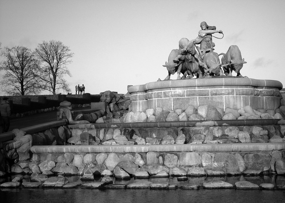 A photograph I took of the Gefion fountain in Copenhagen. Installed in 1908, the fountain was created by Anders Bundgaard (1864-1937).